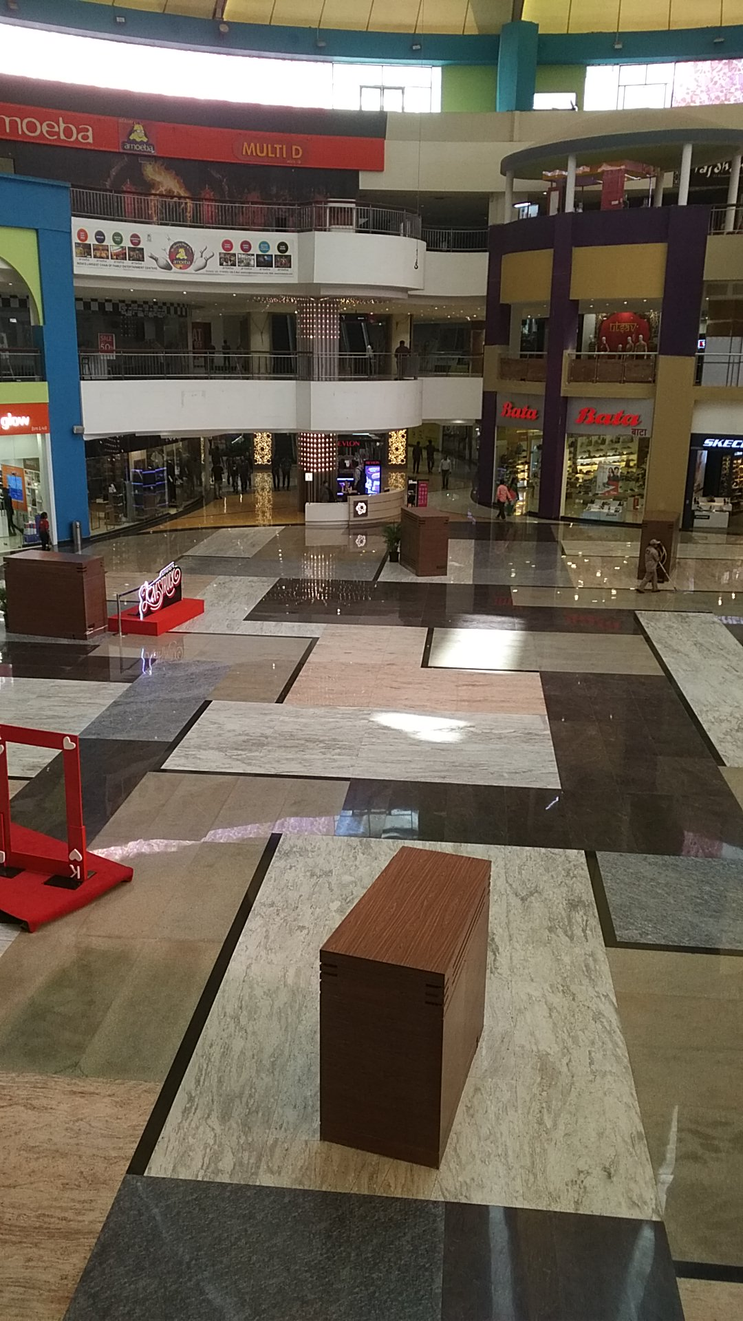 Interior of Amanora Mall (Photo taken @ second floor)